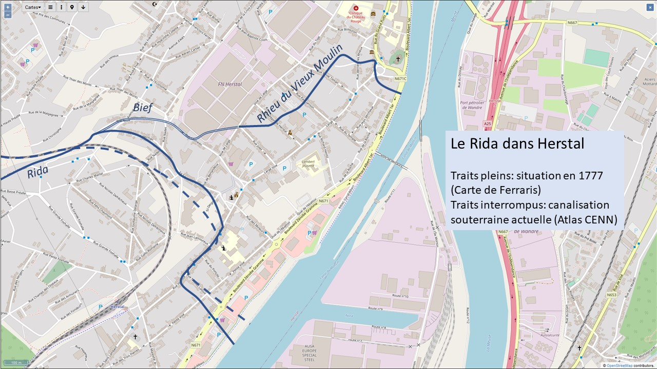 Rida River in Herstal (base map (c) OpenStreetMap contributors)